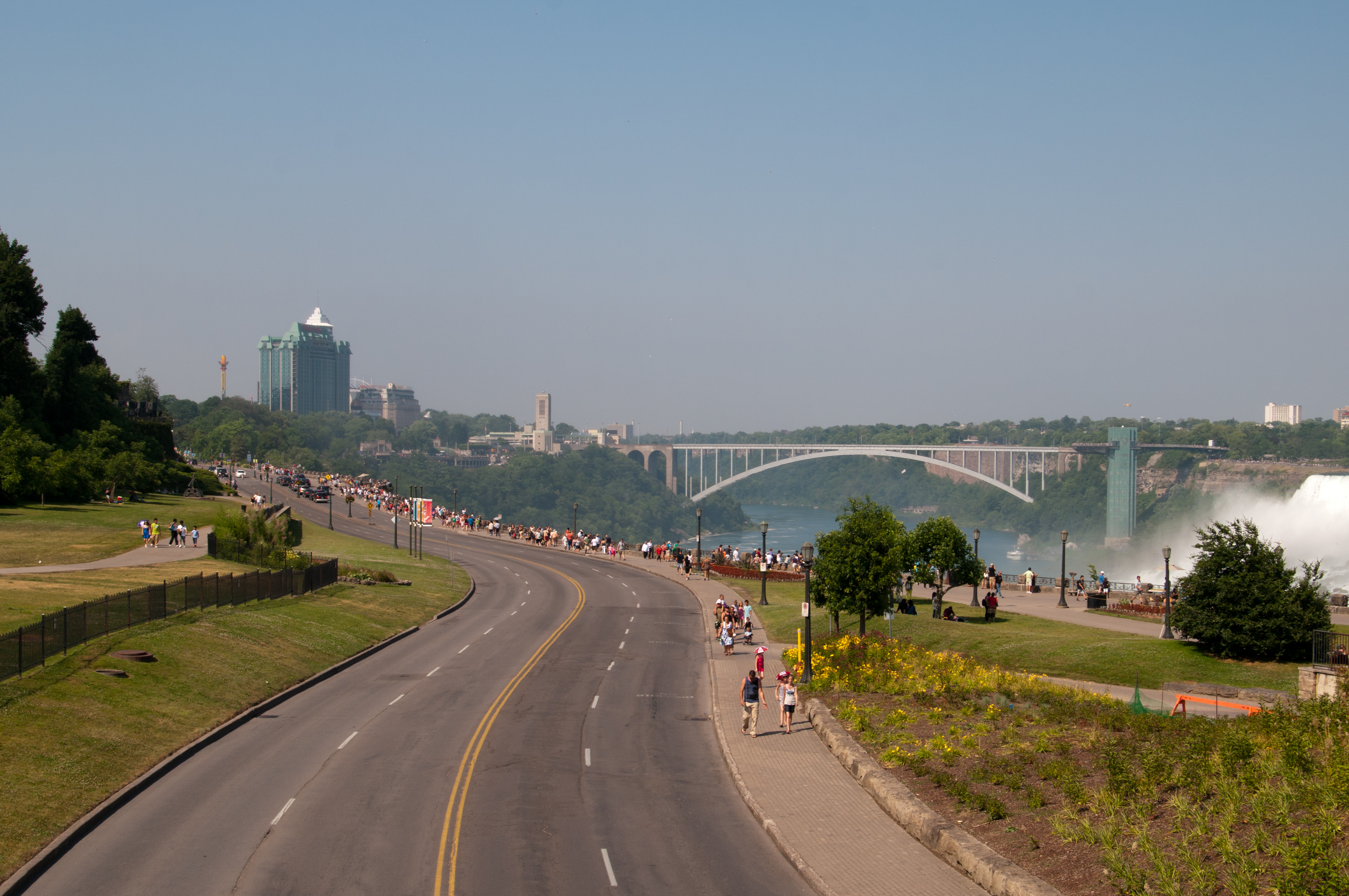 Niagara Parkway and in the background the Rainbow Bridge.